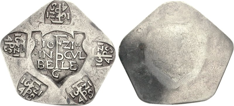 Germany, Jülich-Berg. AR Zwanzig (20) Stüber Klippe (7.49 g). Siege issue. Dated 1621. (five pellets) 16 Z1(four pellets)/• IN GVL:/BE LE/G across field, Large FP monogram; all within shield; five shield stamps around, each consisting of large FP monogram, flanked by 16 Z1 above and 4 S below Blank. Cf. Brause-Mansfeld, pl. XIII, 2; Noss 526; Mailliet 16. VF, areas of toning. Overstruck on uncertain undertype, possibly a sixteenth-century Dicke of Strassburg. Very rare. Ex J.D. Lasser Collection; Münz Zentrum 62 (4 November 1987), lot 3999; Georg Baum Collection (Künker 116, 27 September 2006), lot 4549. "When the last duke of Jülich-Kleves-Berg died in 1609, a controversy over his territory broke out. The Elector of Brandenburg and the Count of Neuburg entered an agreement in which they would split the territory between themselves. Holy Roman Emperor Rudolf II was not happy with these terms. He sent Archduke Leopold V, his cousin, to serve as the administrator of the disputed duchy. Leopold set up his headquarters in the fortress at Jülich, which was handed over to him by Baron Johann von Reuschenberg. The fortress, now under the control of the Holy Roman Empire, was besieged in 1610 by a large force composed of nations hostile to the Habsburgs. This siege prompted Leopold and Johann von Reuschenberg to abandon Jülich. After the siege, the Count of Neuburg and Elector of Brandenburg put into effect their original plan to split the territory of Jülich-Kleves-Berg. They put the Dutchman Frederik Pithan in control of the fortress at Jülich. This, in effect, meant that the United Provinces controlled the fortress. In 1621, when the Dutch ceasefire with Spain expired, Spain invaded the United Provinces and besieged the Jülich fortress. After a costly siege, Spain took the fortress."